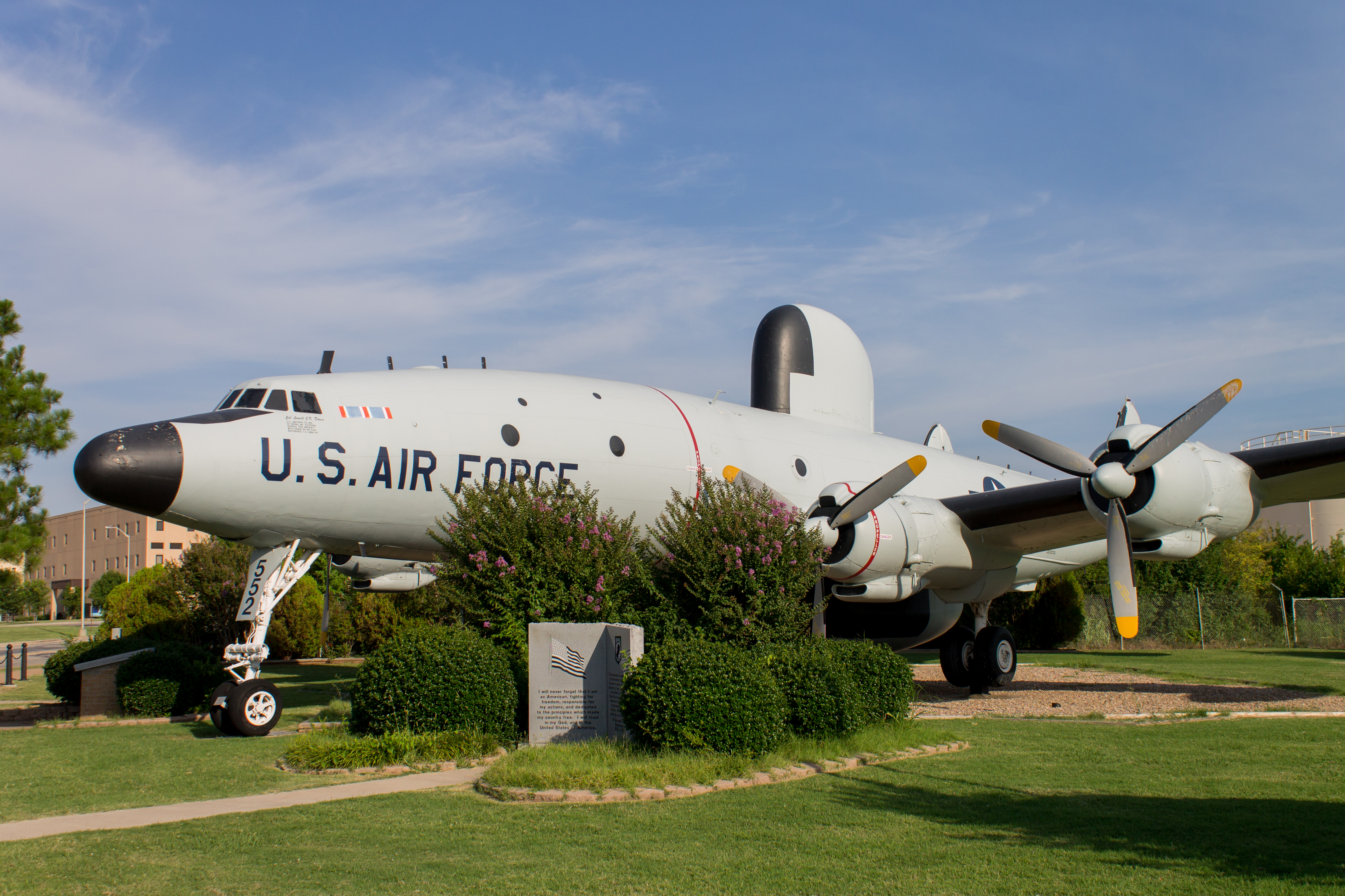 An EC-121 Warning Star on display at Tinker AFB, Oklahoma.